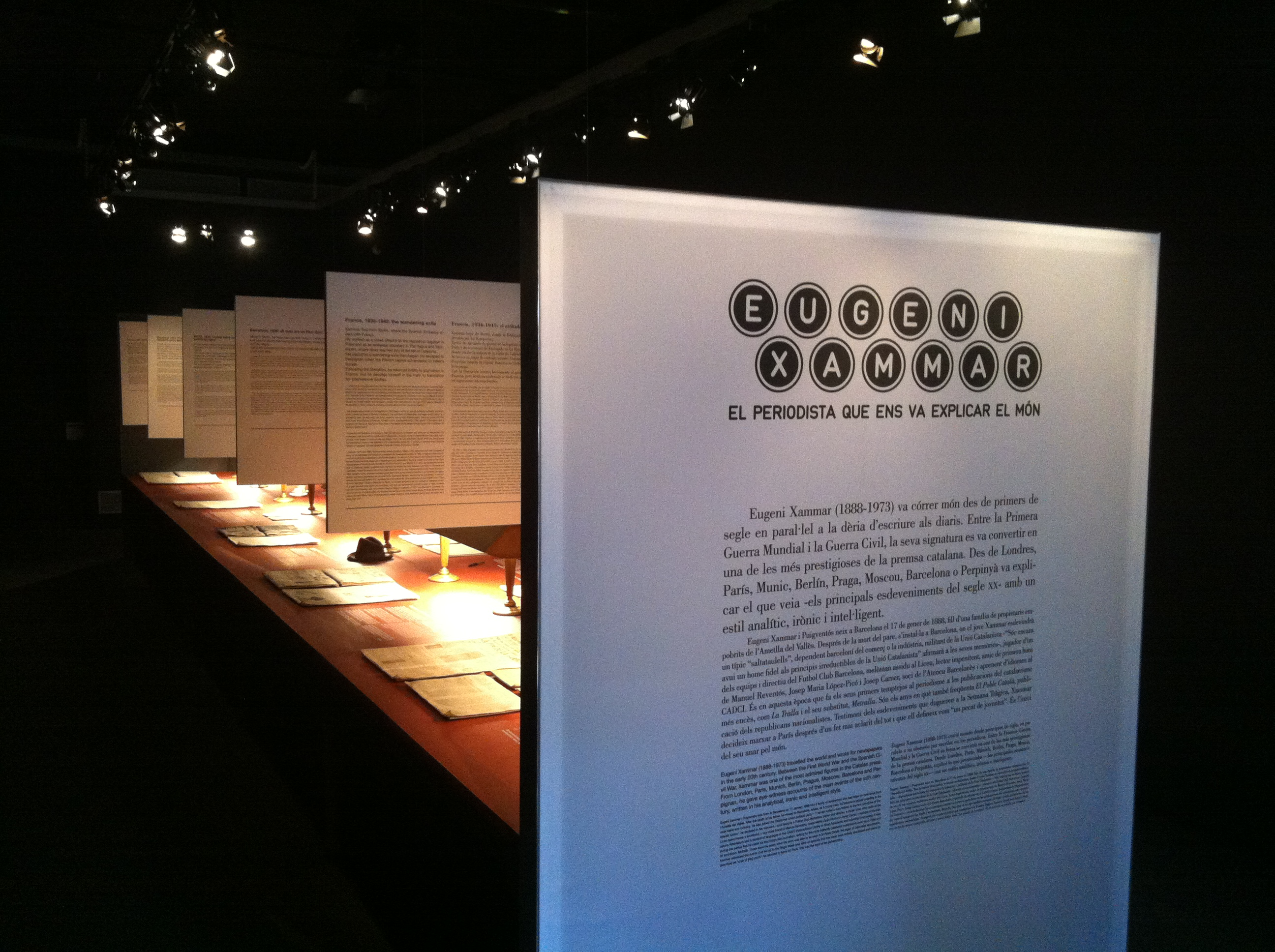 Eugeni Xammar exhibit Palau Robert